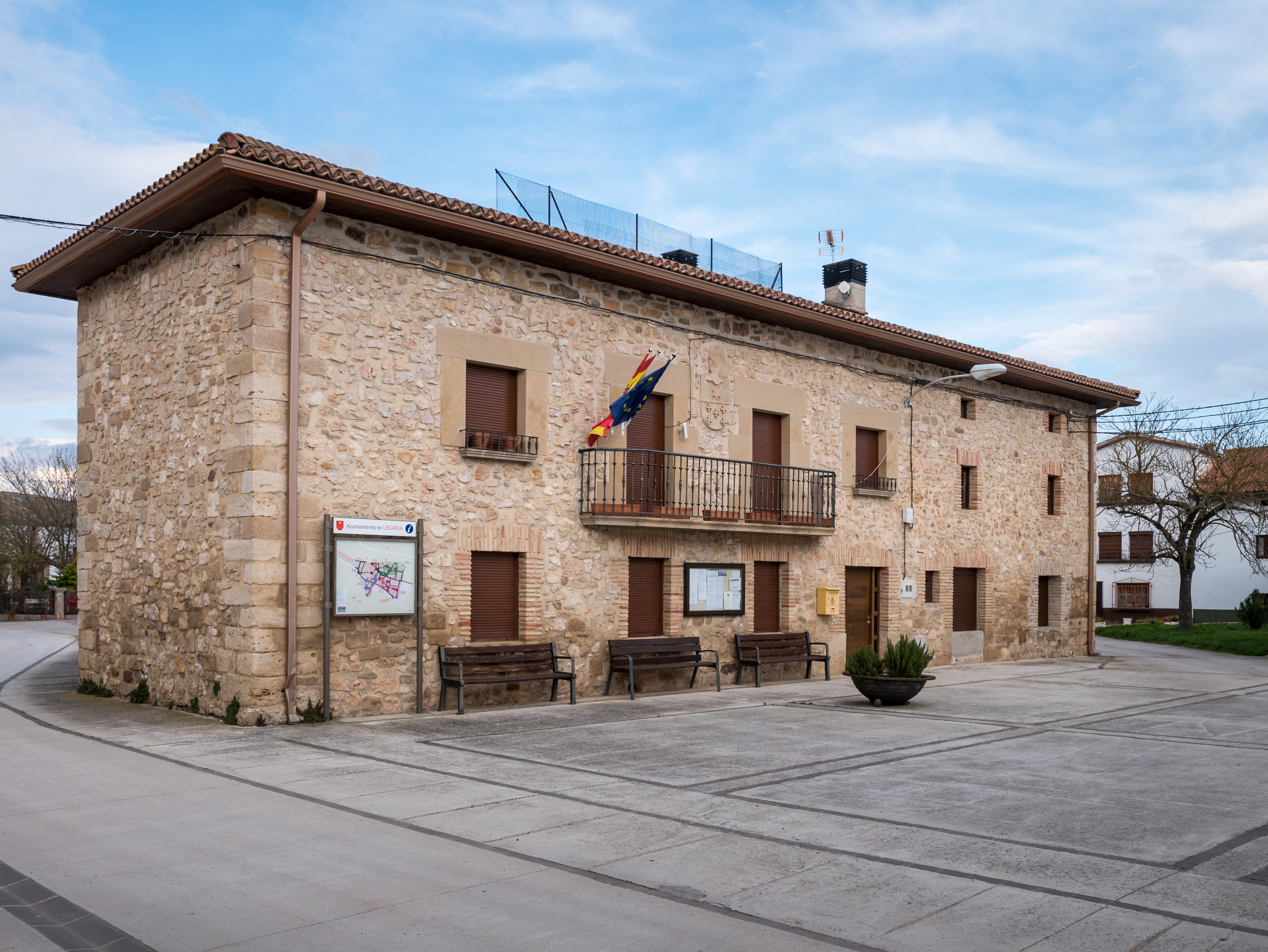 Town hall of Legaria. Navarre, Spain